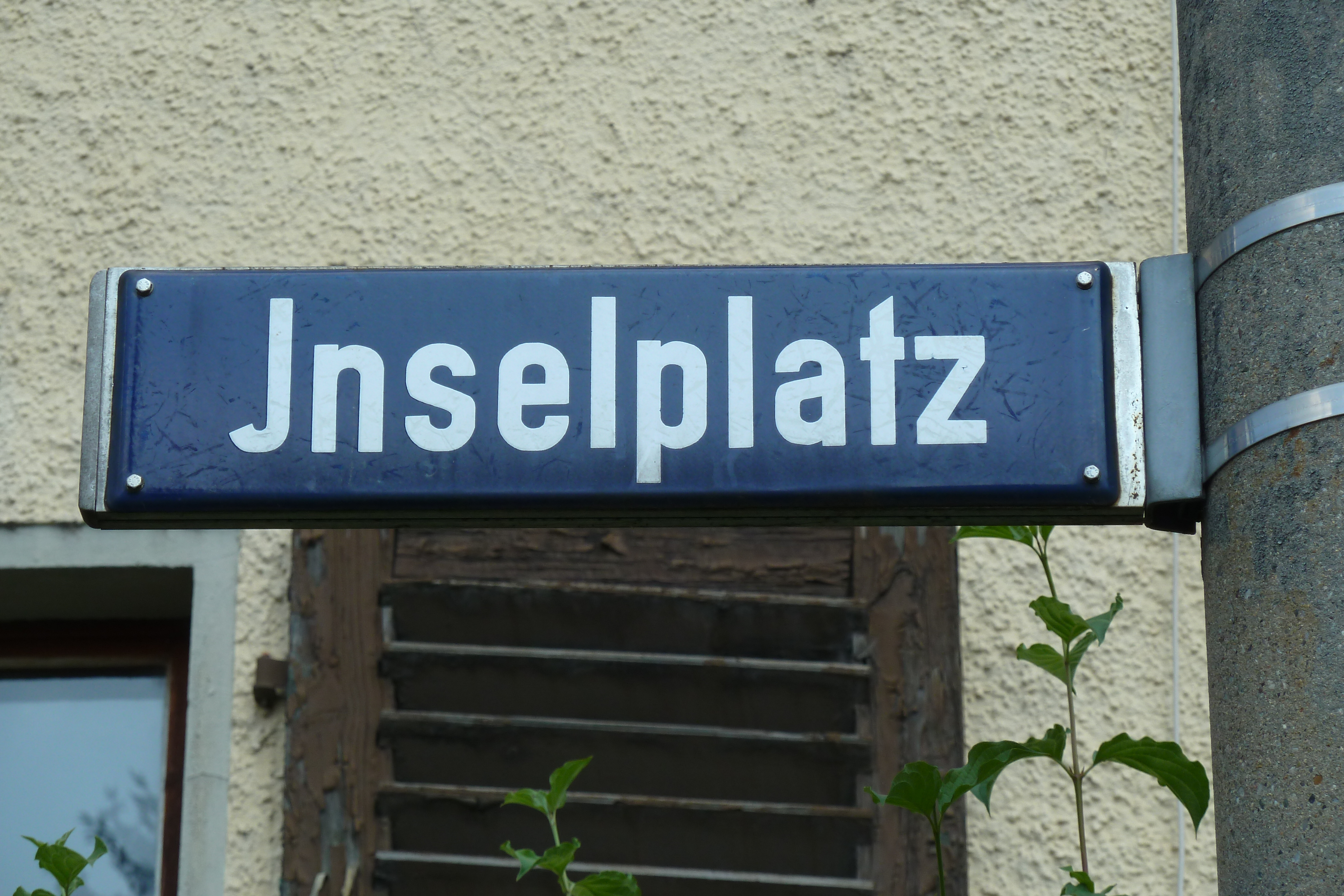 Street sign for Inselplatz in Jena, note that here a J is used instead of an I for the first letter